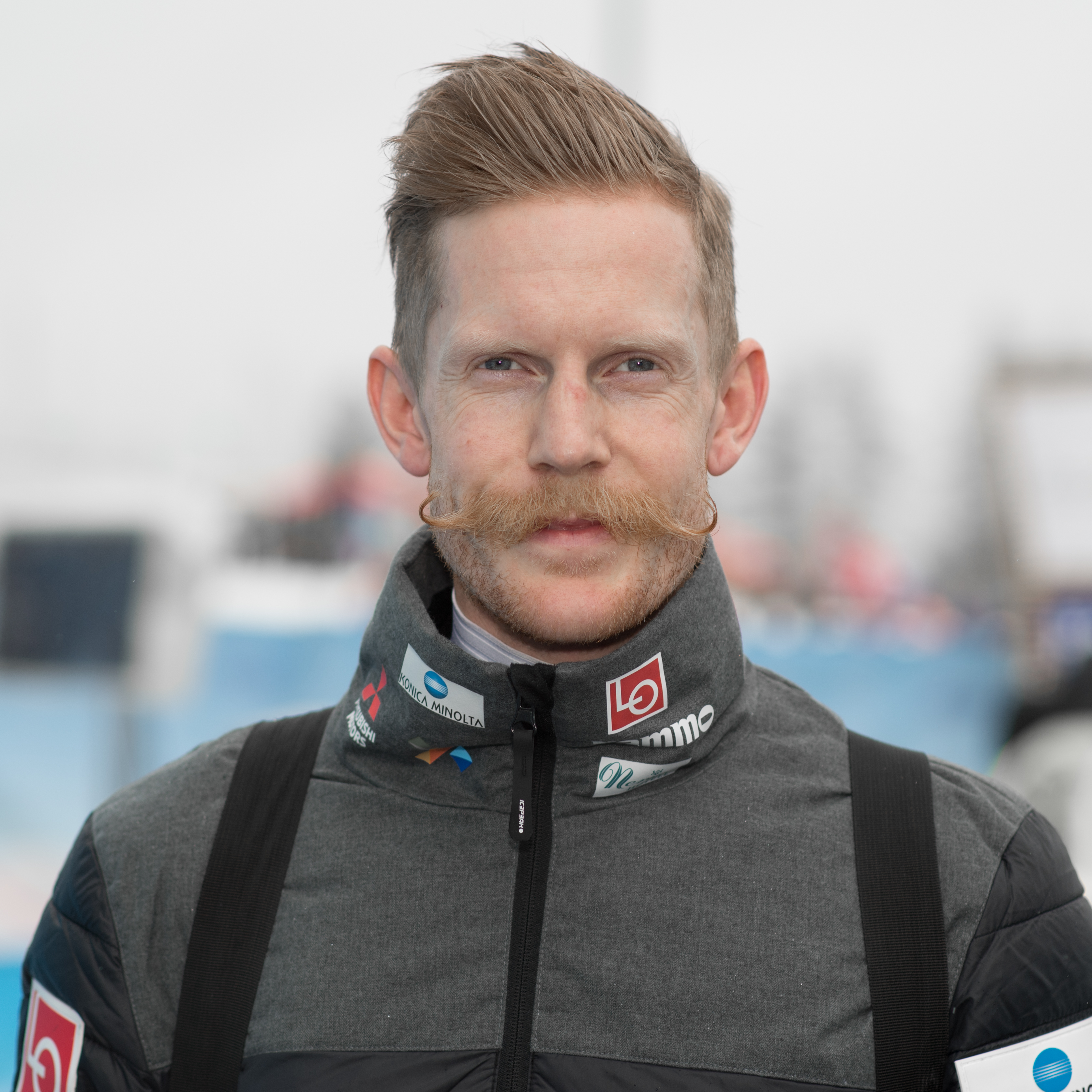 Seefeld, March 1, 2019: FIS Nordic World Ski Championships, Ski Jumping Mixed Training.